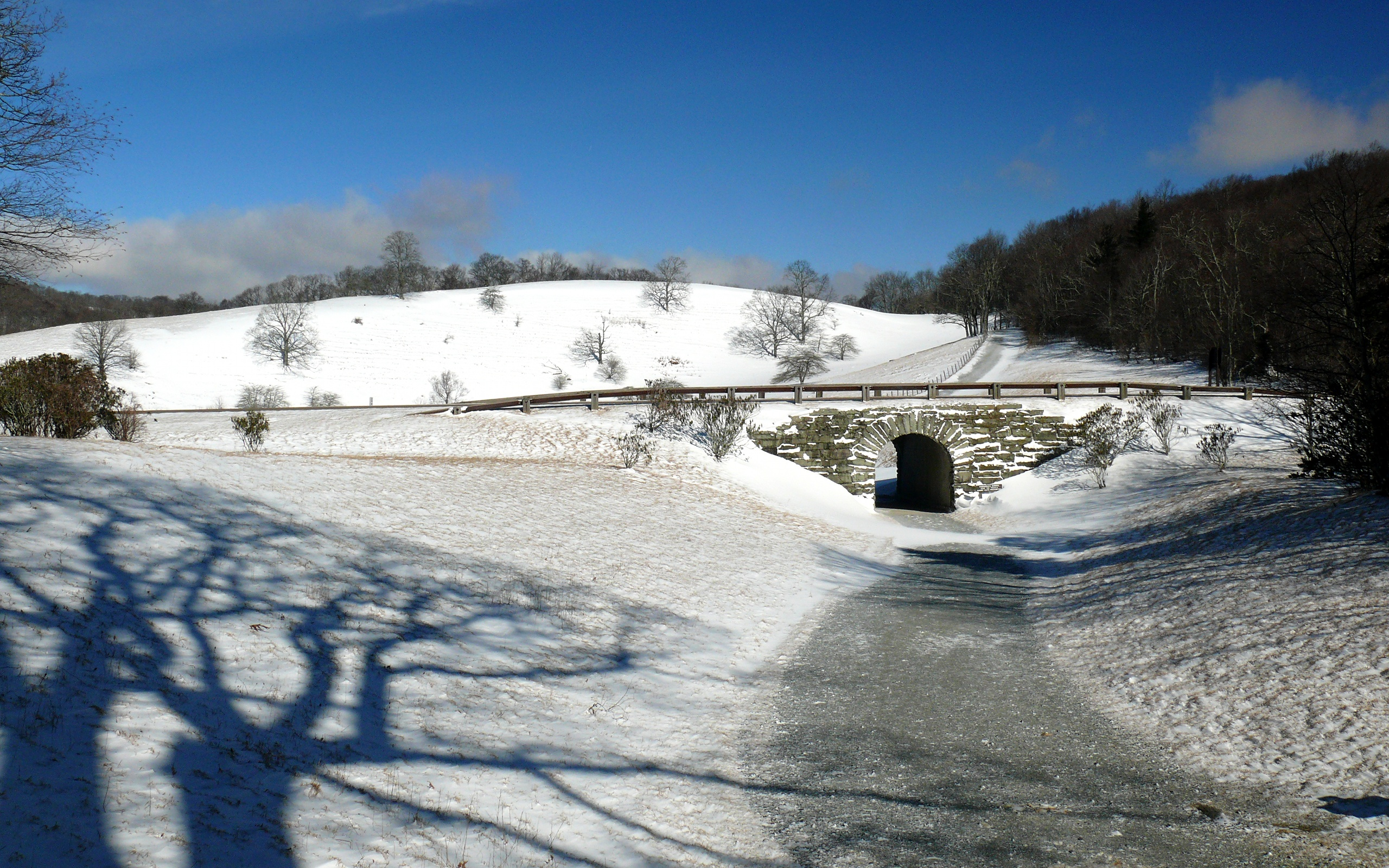 Hiking and horseback riding trails at Moses H. Cone Memorial Park, near the town of Blowing Rock on the Blue Ridge Parkway. Photo taken with a Panasonic Lumix DMC-FZ50 in Watauga County, NC, USA. Cropping and post-processing performed with The GIMP.